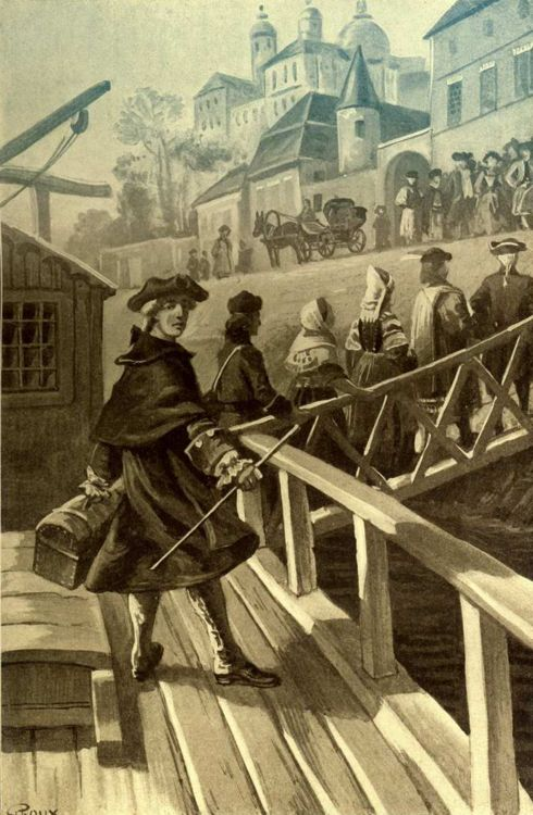 An illustration from Jules Verne's novel "The Secret of William Storitz" (written in 1898, firts published in 1910 after his death with changes made by his son Michel) drawn by George Roux.